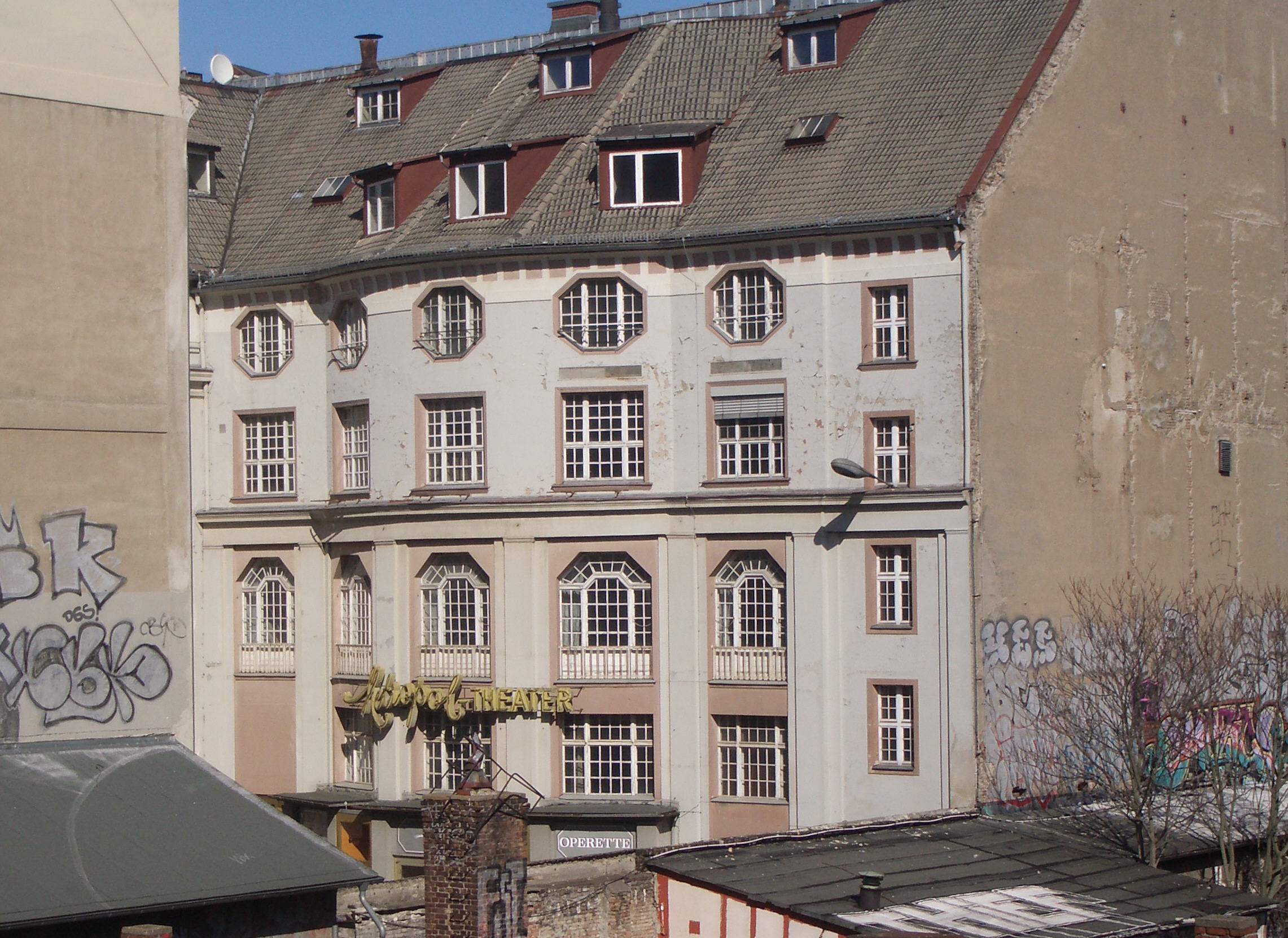 Berlin, Germany: Metropoltheater (2005). The theatre was located within the Admiralspalast in Friedrichstraße, Berlin-Mitte, and was named Metropoltheater since 1955 into the 2000s (now again Admiralspalast). It is not identical with the former Metropoltheater (1898-1933) operating in the building that is today's Komische Oper in Behrenstraße.